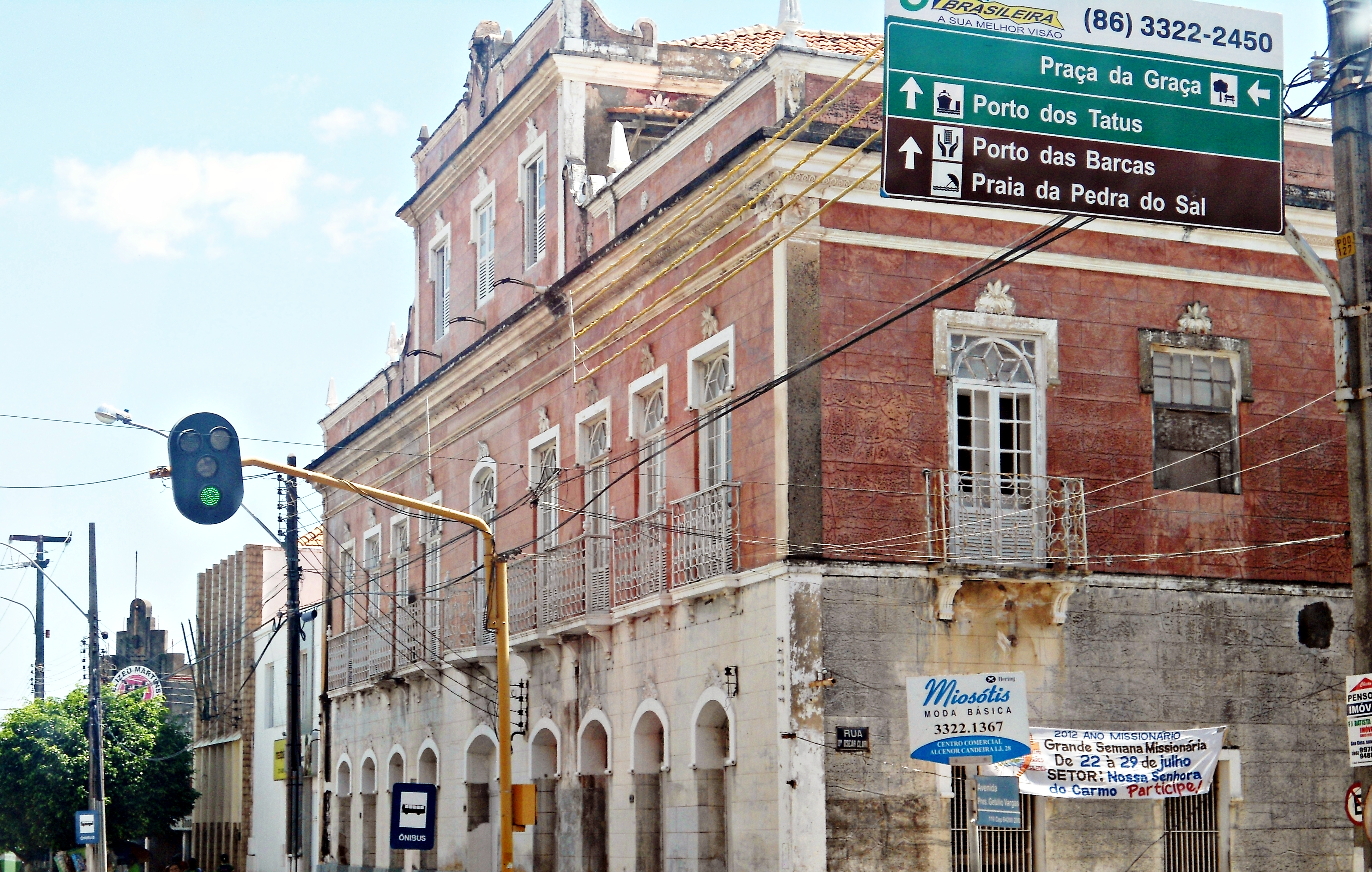 casa inglesa